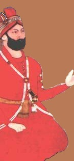 Nadir Shah Afshar